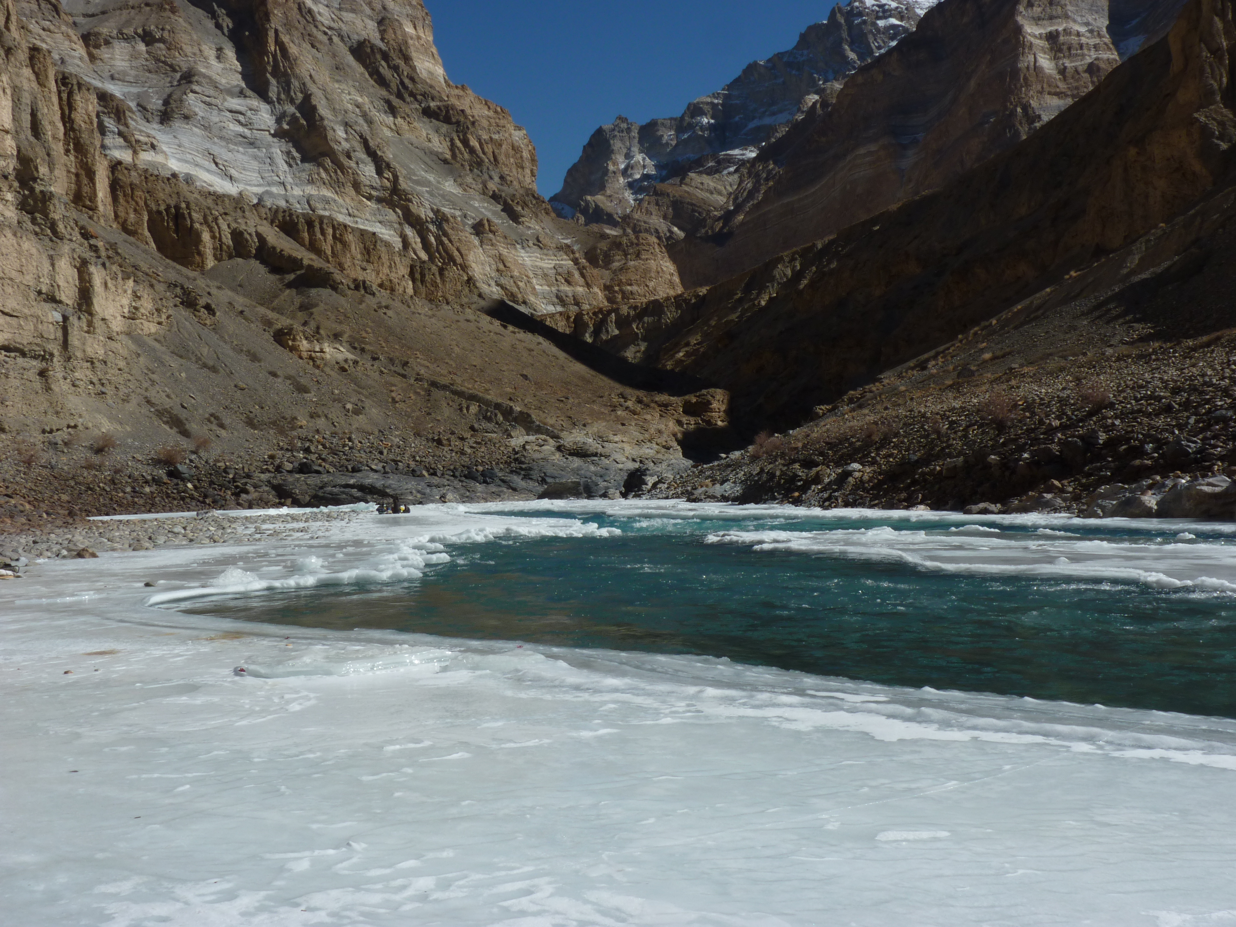 Blue sky in Chadar